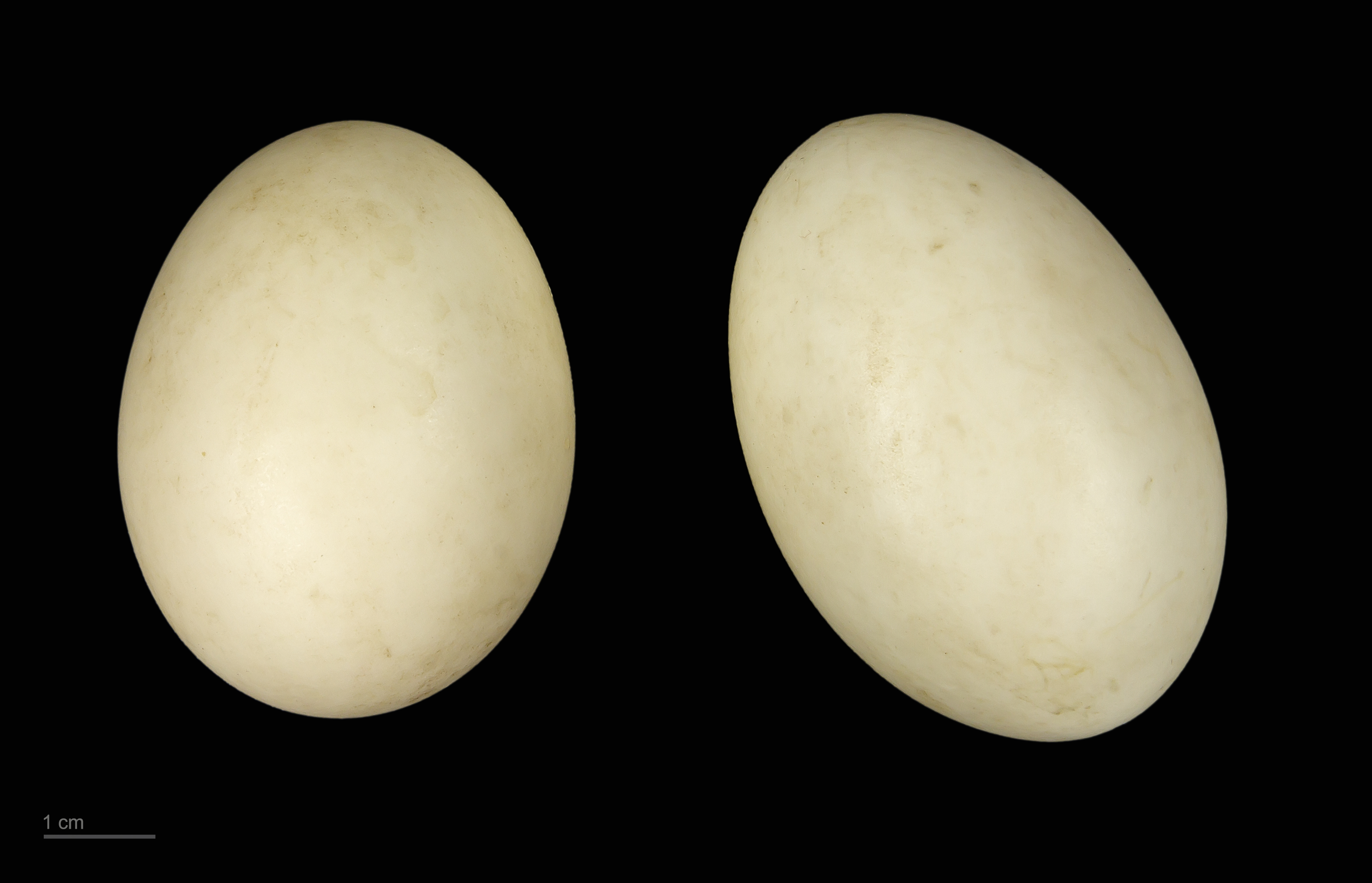 Egg of Australian wood duck Collection of Jacques Perrin de Brichambaut.